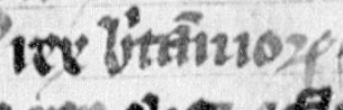 An excerpt from folio 29r of Lat. 4126 (the Poppleton manuscript). The excerpt refers to Dyfnwal, King of the Britons (died 908×915).